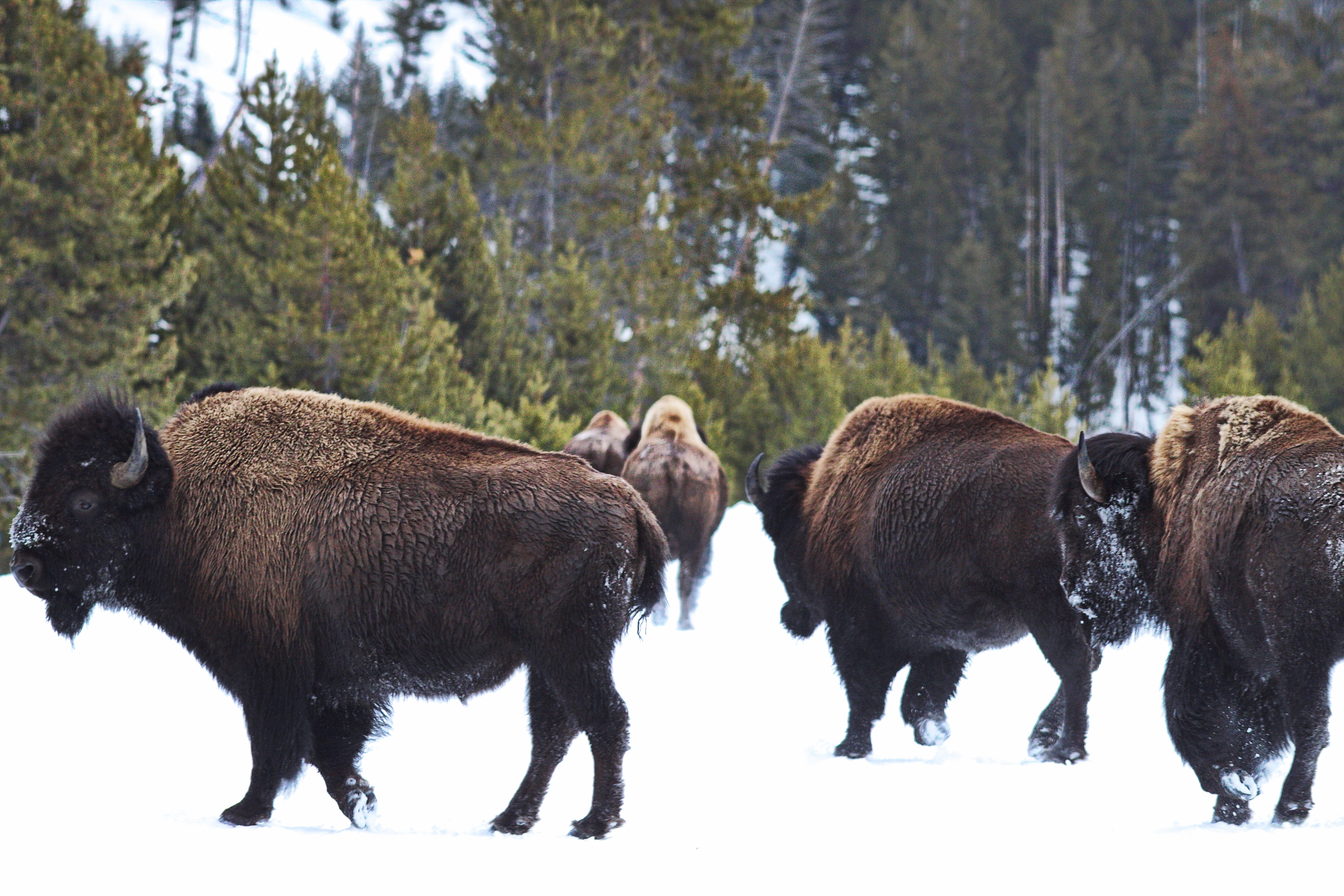 One of the buffalo bulls looking back at me shortly after the stampede had passed me by in Yellowstone. Taken by Jeffrey Phillips Freeman.